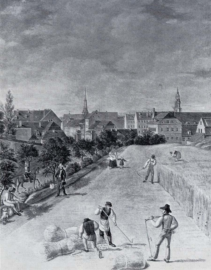 "The area in front of the Prenzlau gate in Berlin" („Gegend vor dem Prenzlauer Tor“ in Berlin)